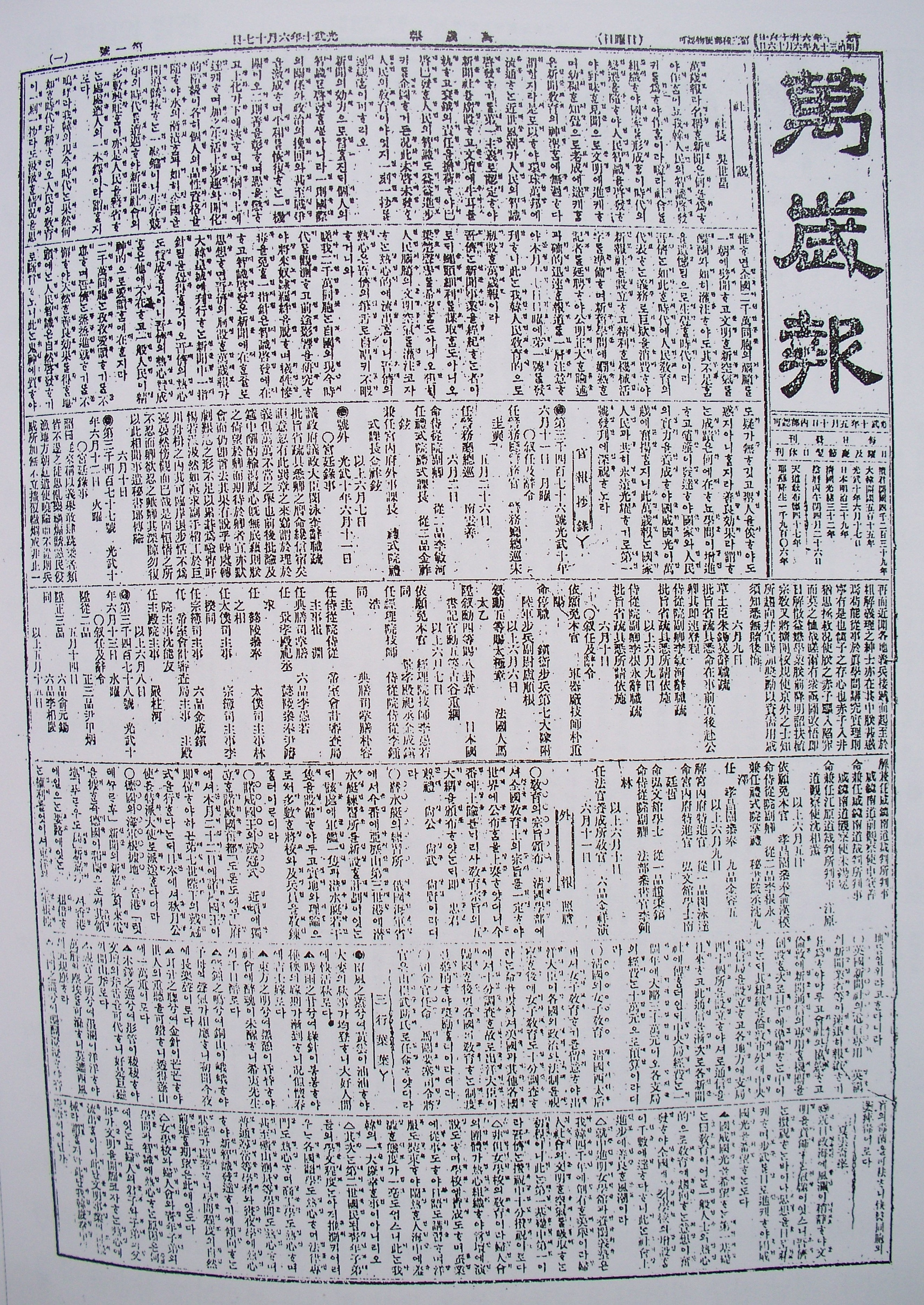 Inaugural issue of the Mansebo (1906)